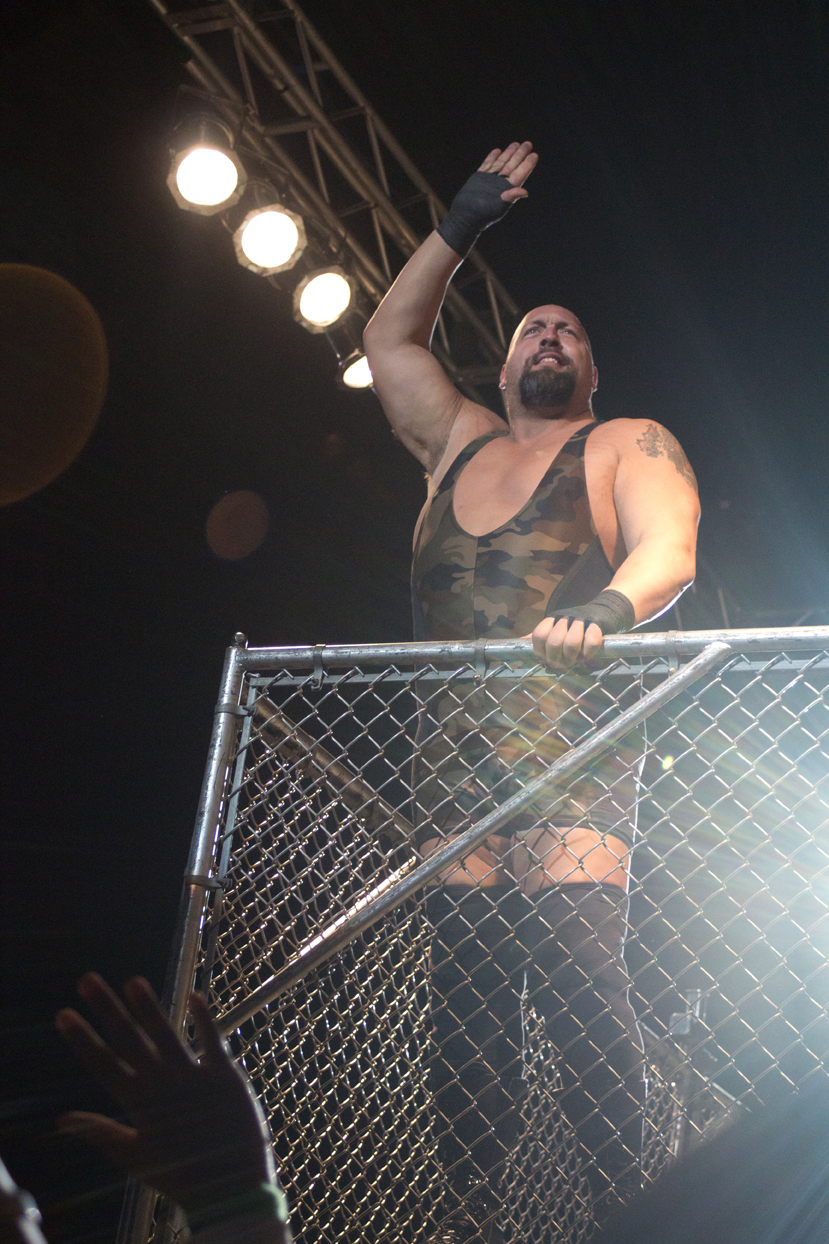 Big Show's Entrance